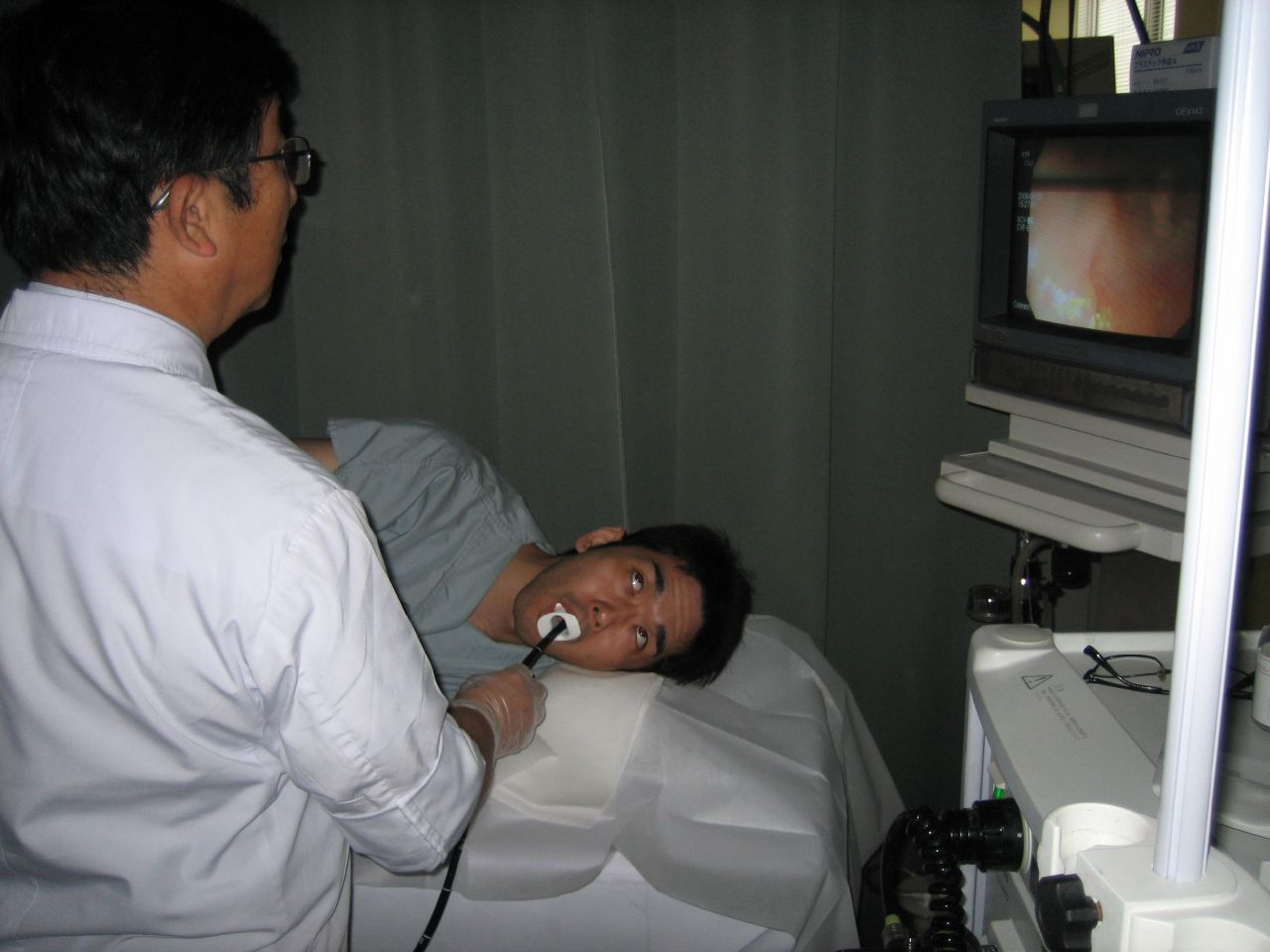 Upper gastrointestinal endoscopy training.